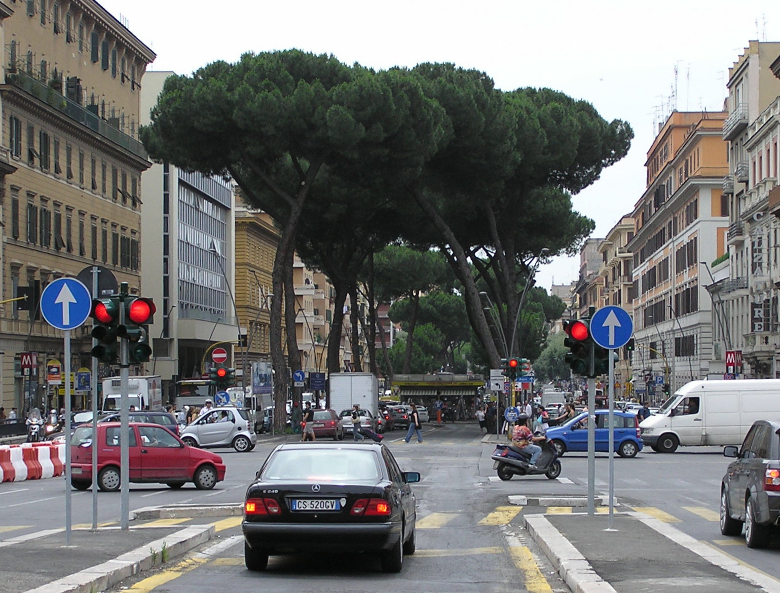 Umbrella pine Pinus pinea in a Rome (Italy) street.